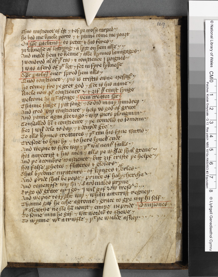 Piers Plowman by William Langland (?c. 1330-c. 1386) is one of the most famous poems in Middle English.